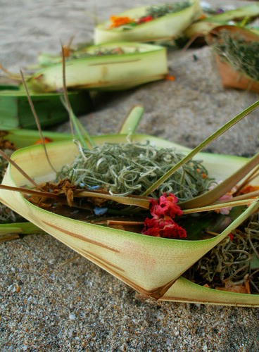 A simple 'canang' or offering consists of flower petals, a small amount of rice, and incense arranged on a woven coconut leaf